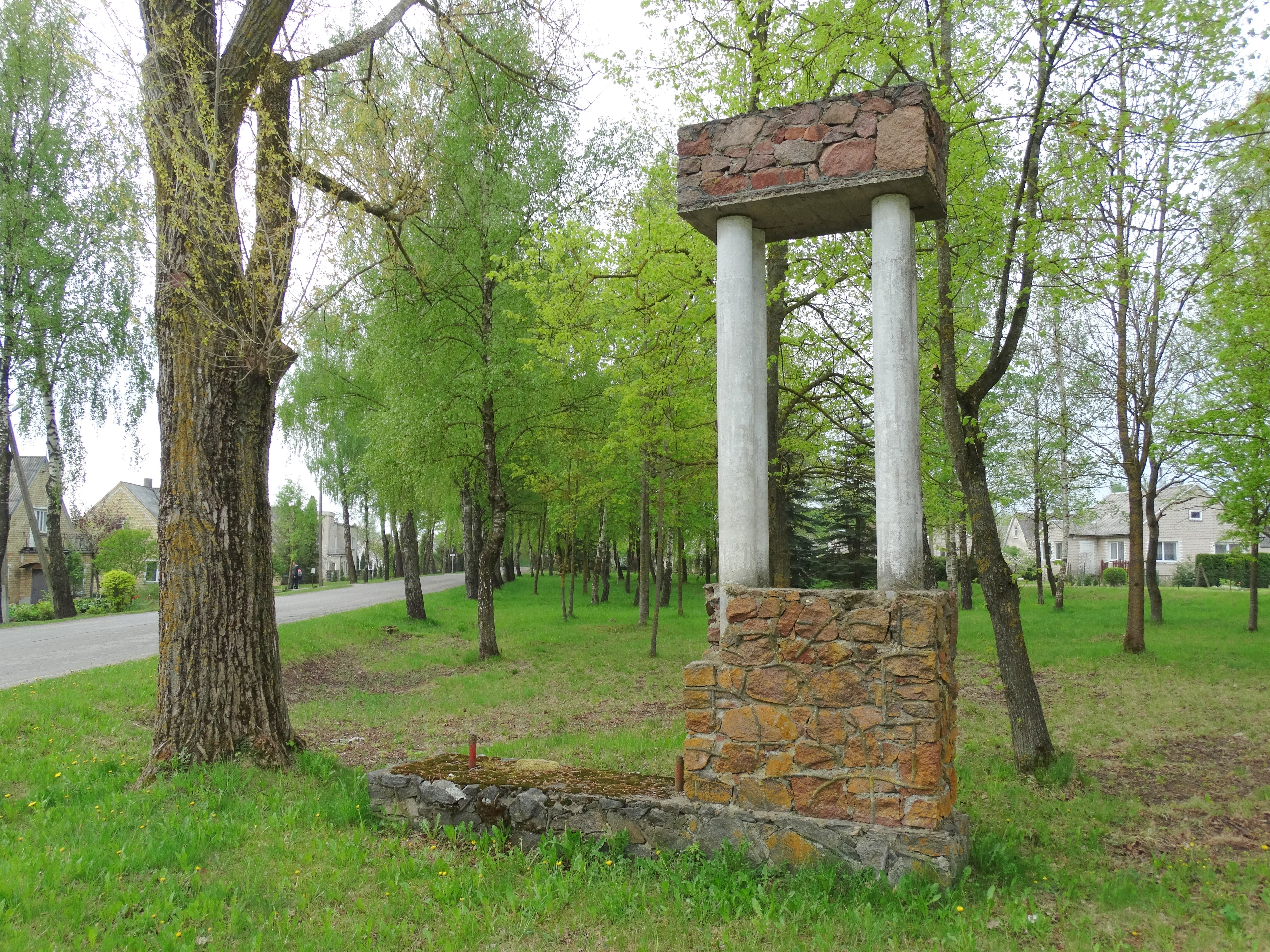 Plaučiškiai, Pakruojis District, Lithuania